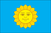 Istra (Moscow oblast), flag